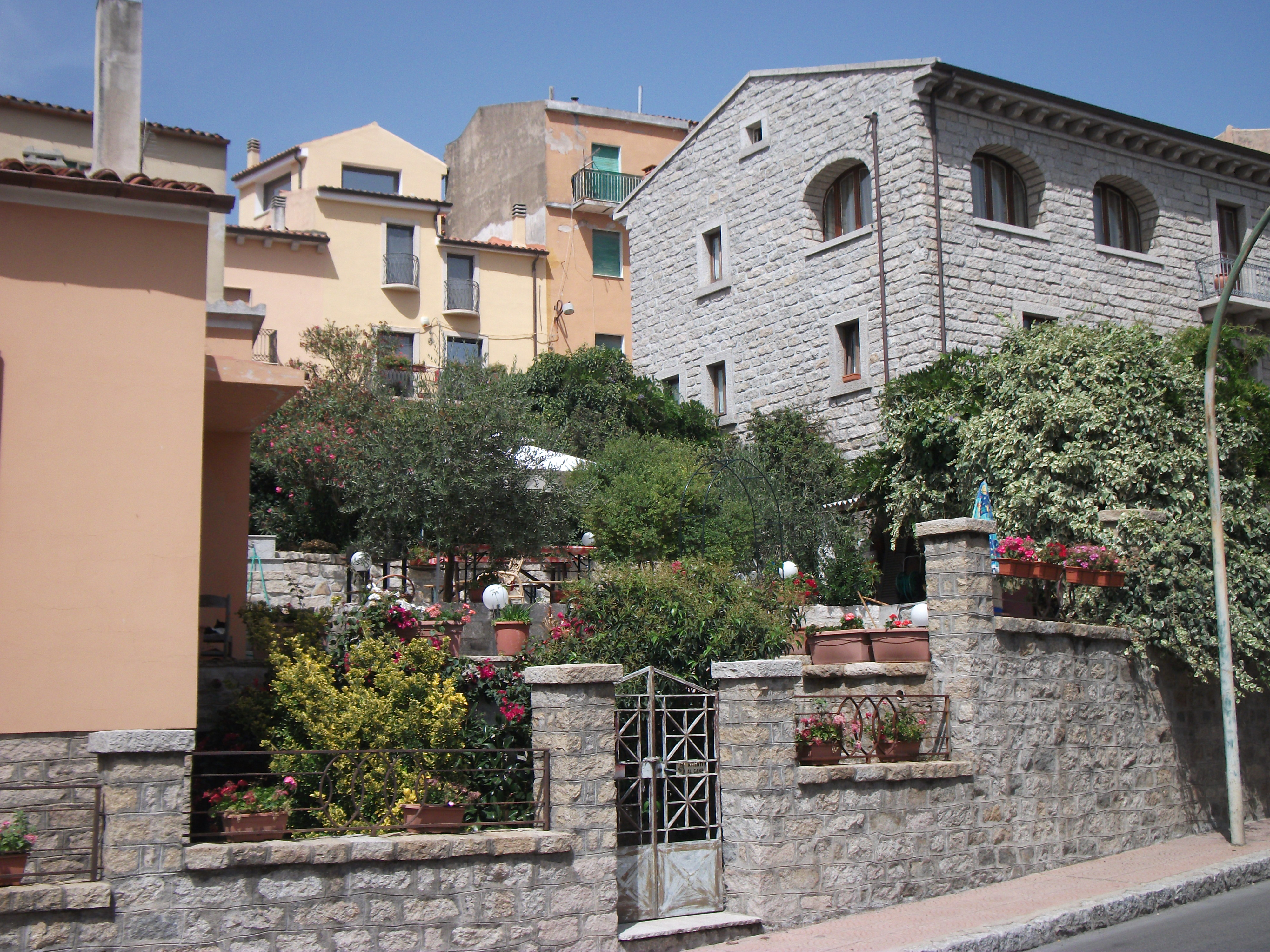 Tempio Pausania, a street